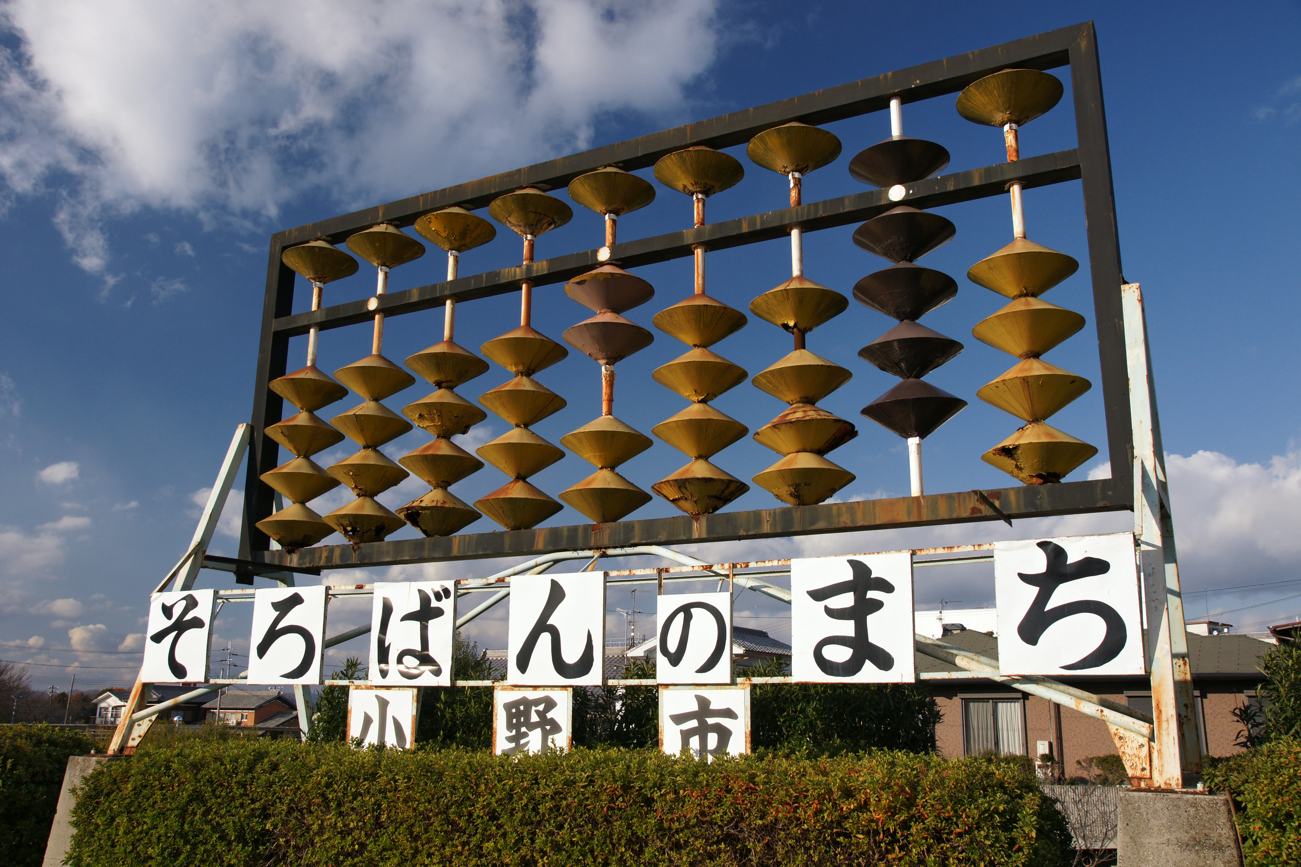 at Ono, Hyogo prefecture, Japan.